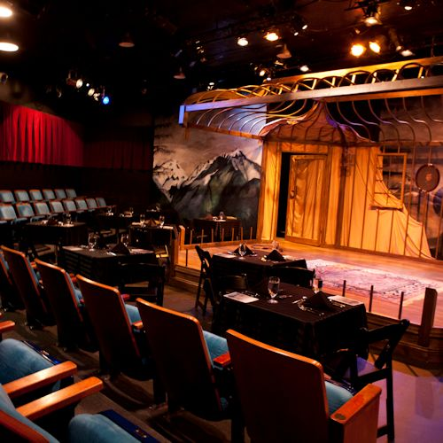 Carnegie Stage theater set up for play May 2015